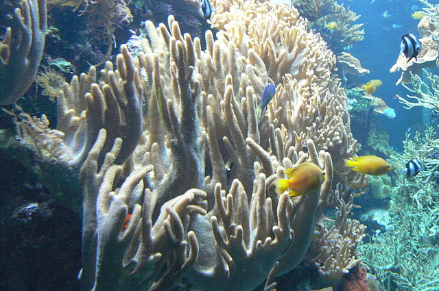 Aquarium Berlin. Germany (Sinularia sp.) Reef-Aquarium Photo:User:Haplochromis